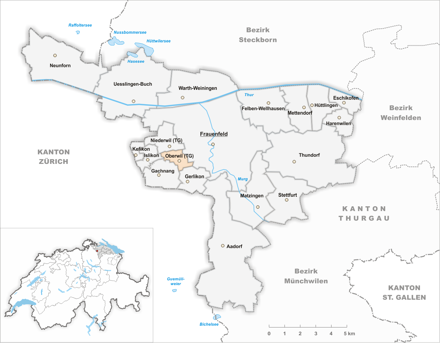 Municipality Oberwil